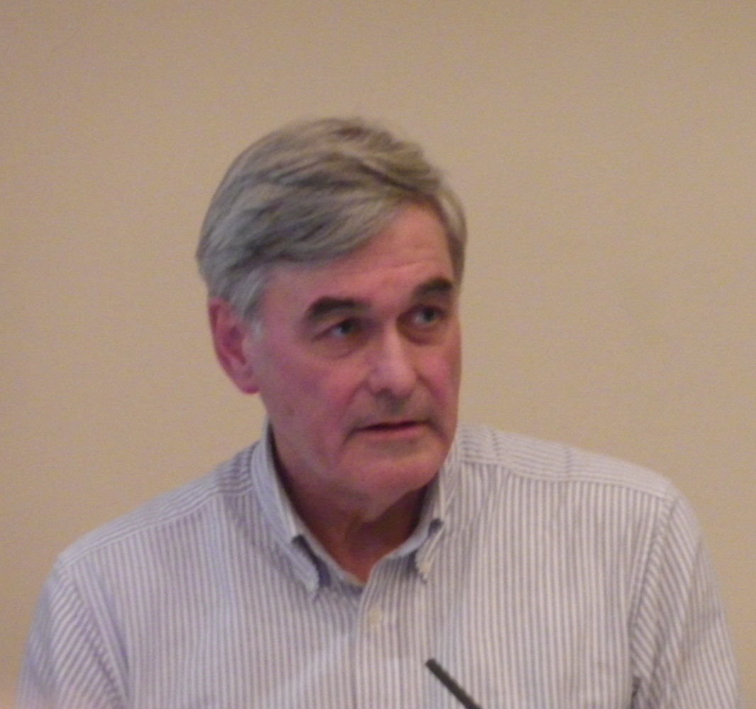 Prof. Gerry Gilmore speaking at the 11 November 2016 meeting of the Royal Astronomical Society